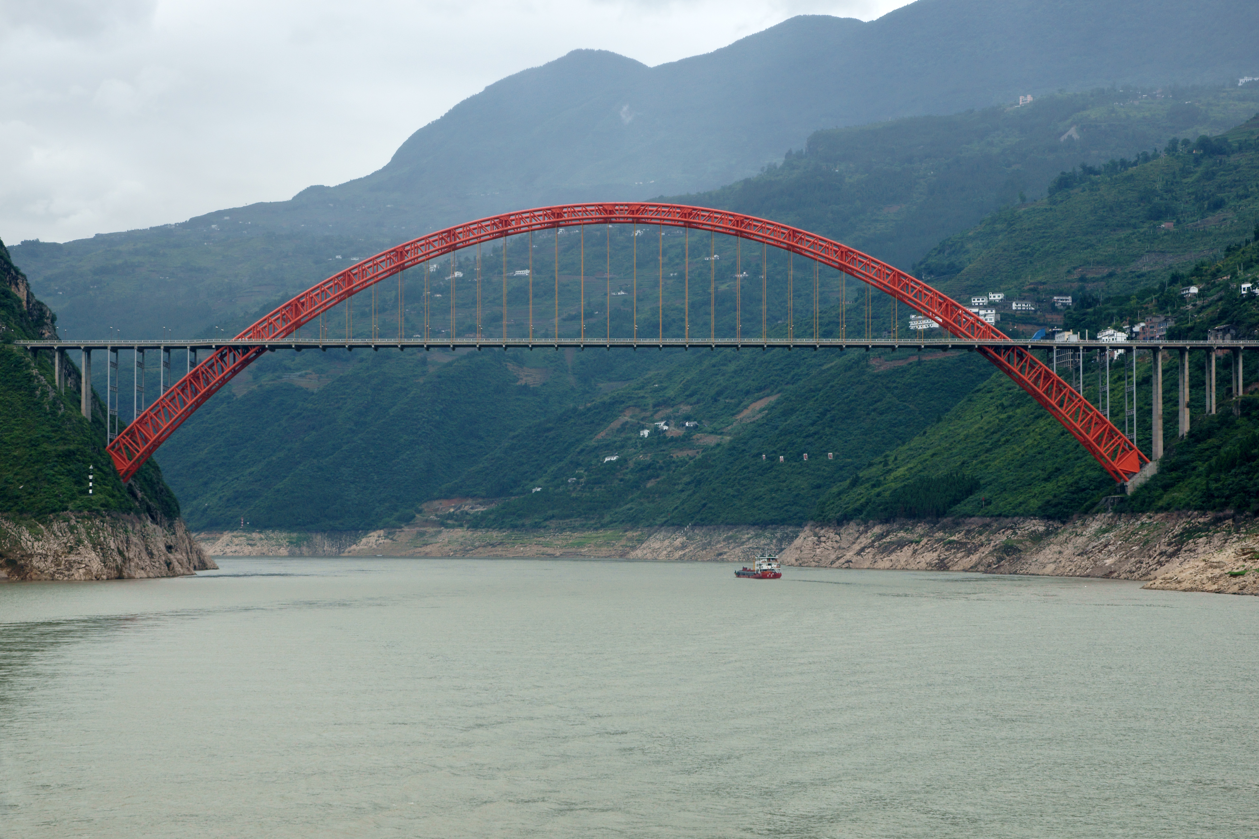 Chang Jiang (Yangtze River) river cruise,. Wu Gorge (Wu Xia), in Hubei, southern China